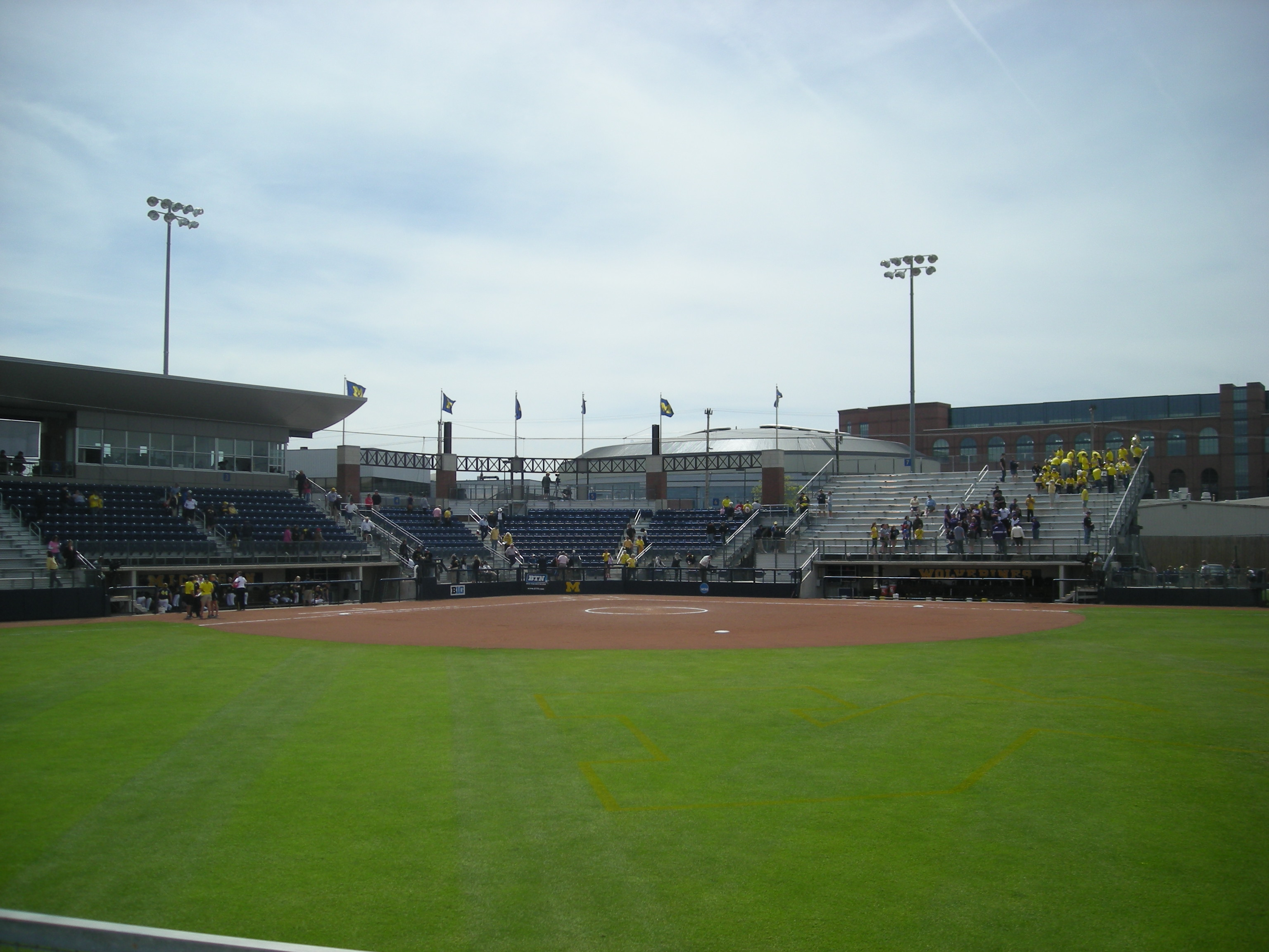 The field after the Northwestern Wildcats vs. Michigan Wolverines softball game at Alumni Field in Ann Arbor, Michigan (United States). Michigan won 16–1.